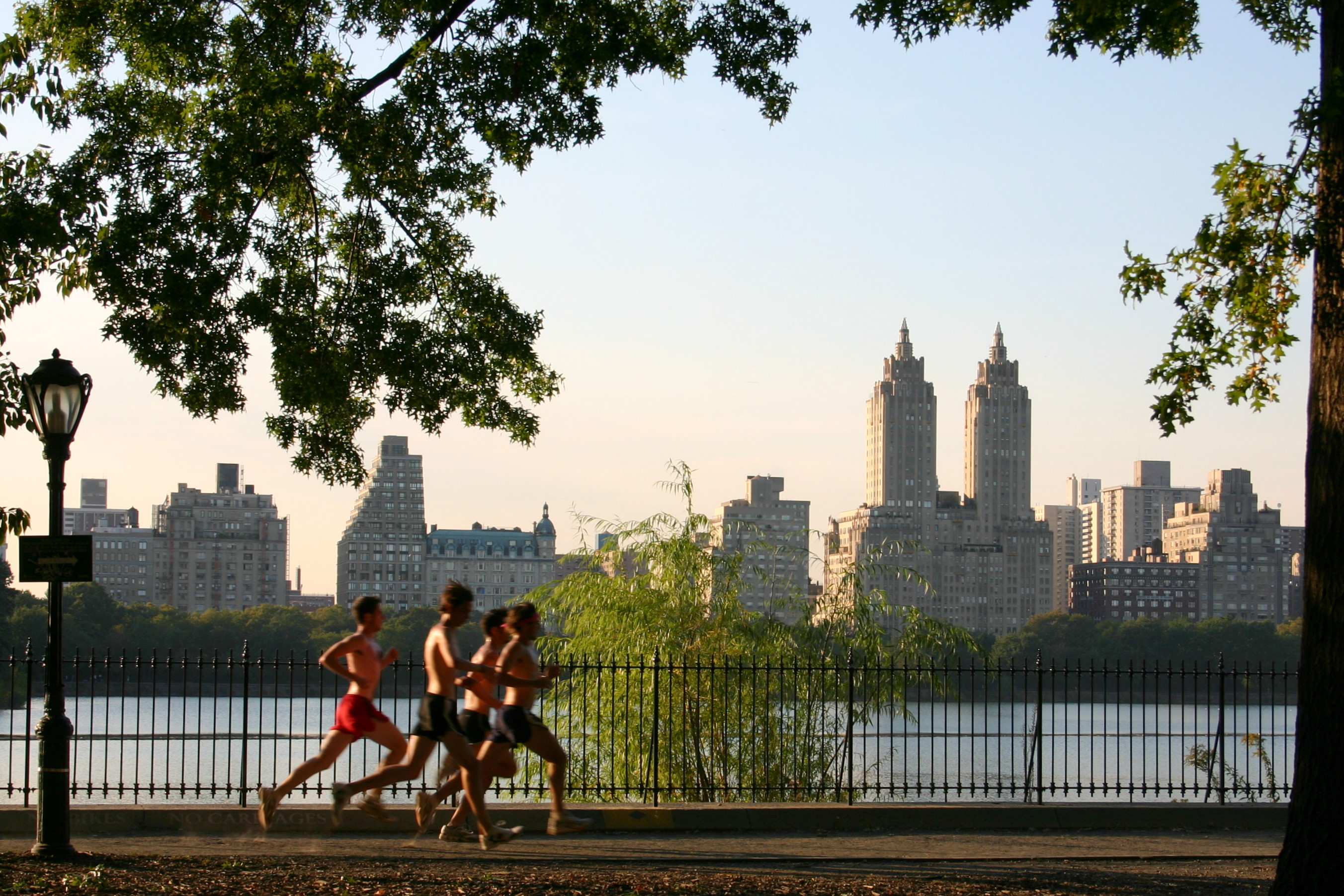 Jogging in Central Park (New York City, NY, USA). View of the Jacqueline Kennedy Onassis Reservoir, and in the background few buildings of the Upper West Side as The San Remo.